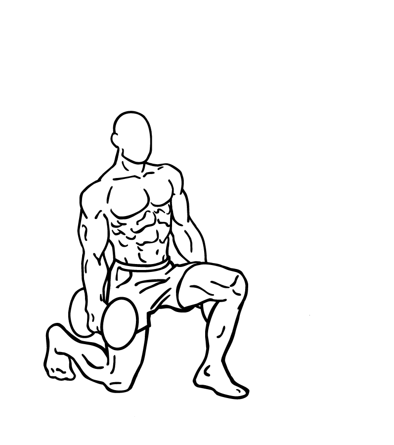 an exercise of hip